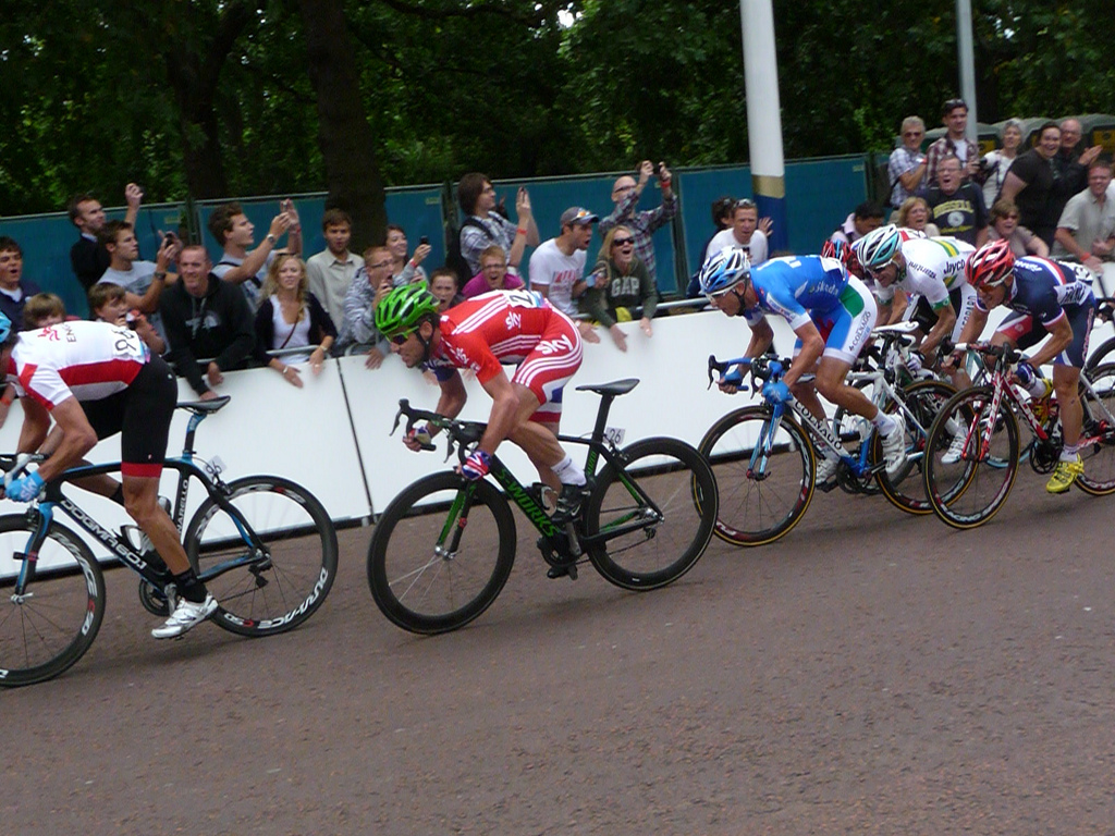 The London Surrey Cycle Classic finished on the Mall, London, in a sprint finish. Pictured are the winner Mark Cavendish along with the second and third place finishers Sacha Modolo and Samuel Dumoulin, with Matt Goss also pictured